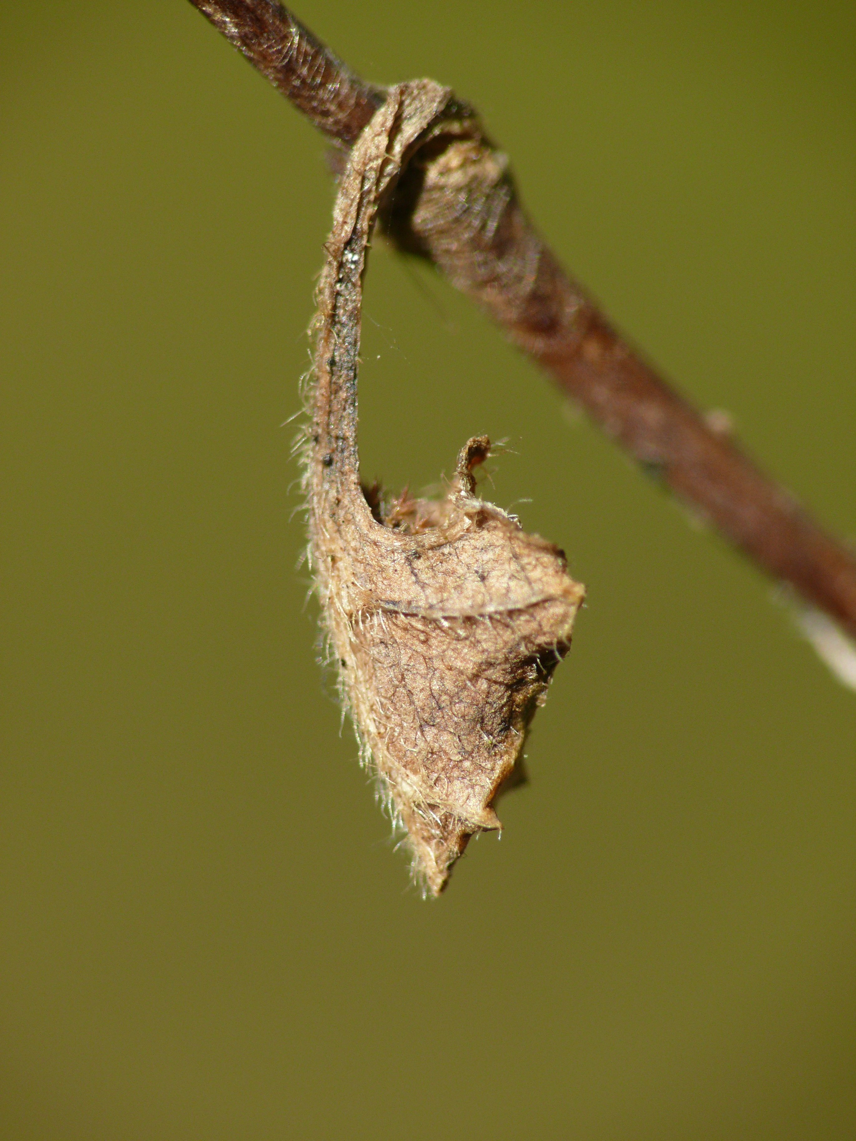 Hibernaculum of the White Admiral (Limenitis camilla), Isar meadow near Icking, Landkreis Wolfrathausen, Bavaria, Germany